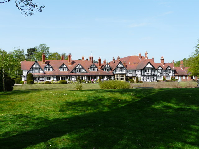 Petwood Hotel, Woodhall Spa. Completed in 1905 as a private house for Grace Maple (of Maples Furniture fortune).